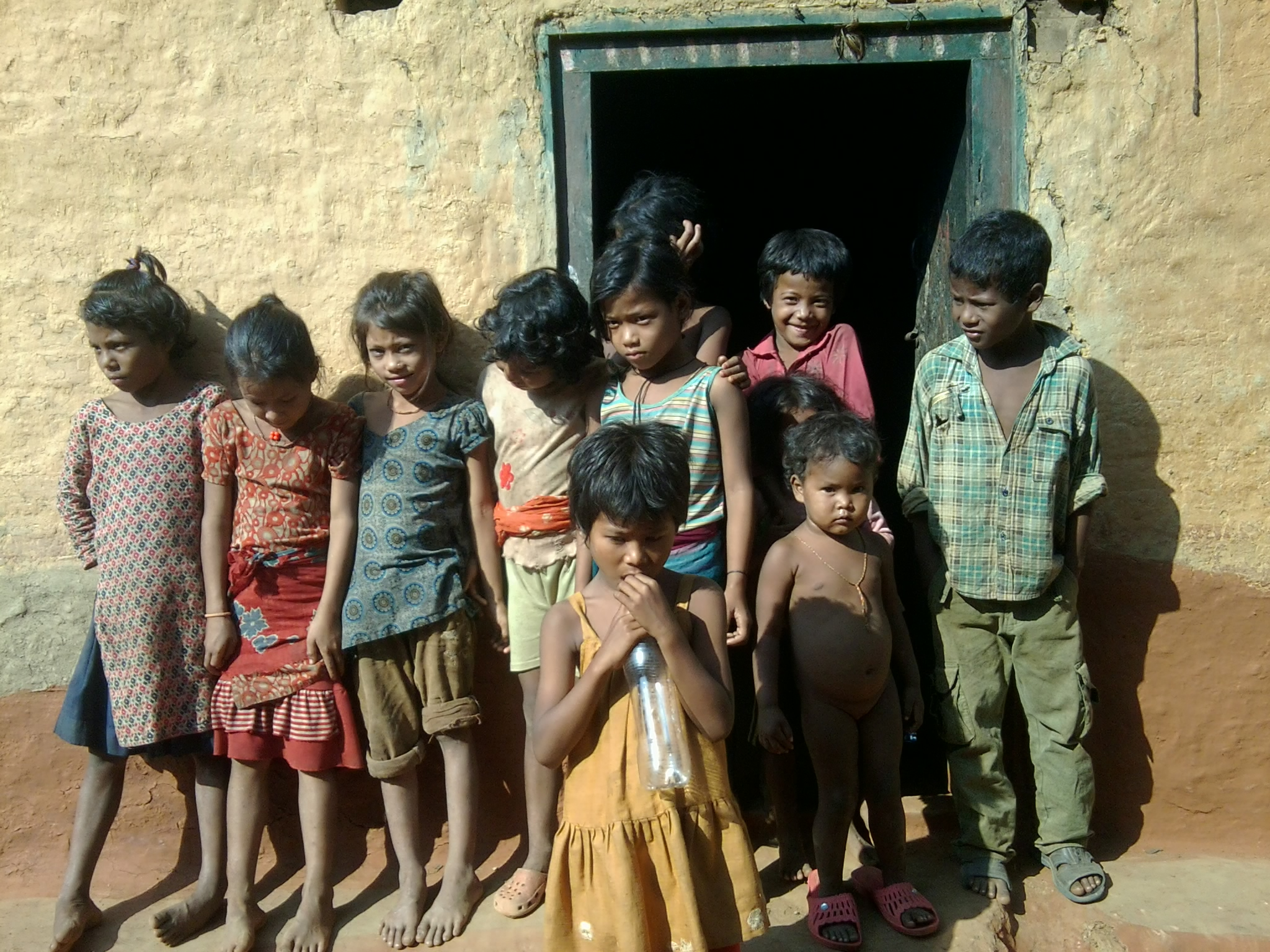 Danuwar Children from Debibhumi-baluwa VDC Nepal.